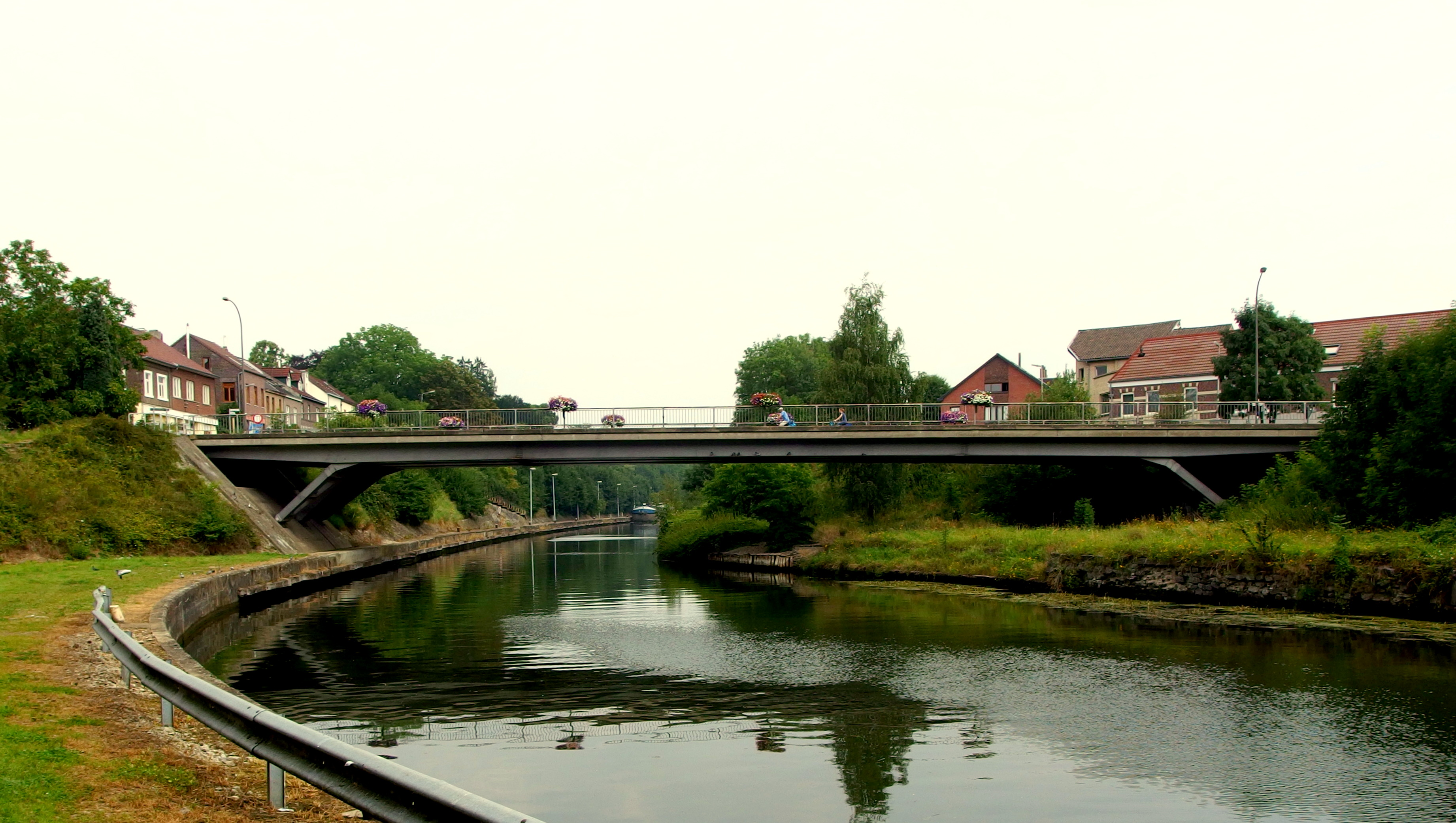 2014-07-27: Bridge over Zuid-Willemsvaart in Smeermaas.